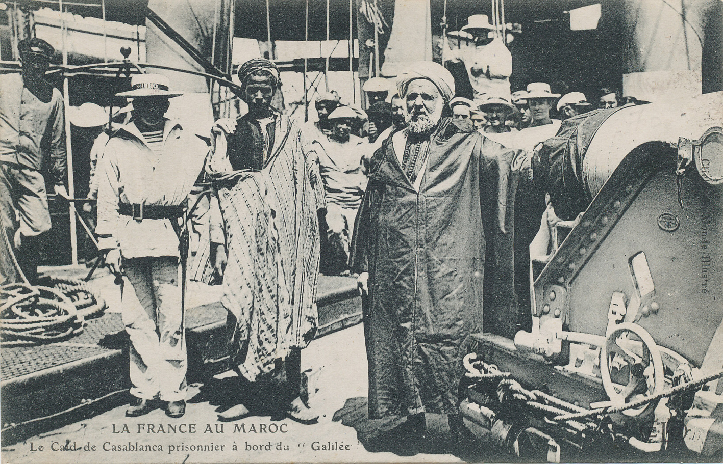 The Pacha of Casablanca, Si Boubker Ben Bouzid Slaoui, captive on the French cruiser Galilée, which bombed Casablanca from 5-7 August 1907